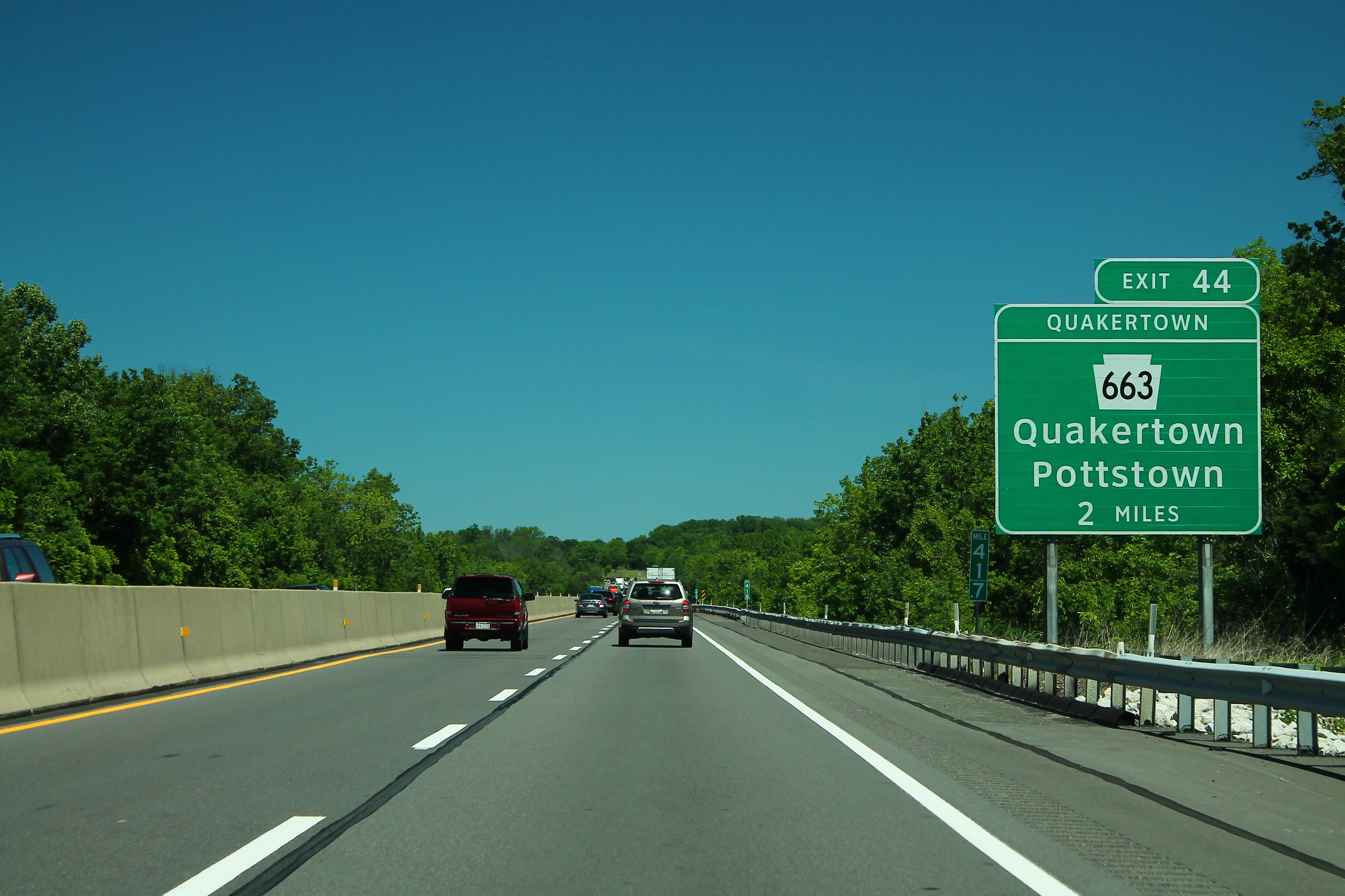 I-476 North - Exit 44 - PA663